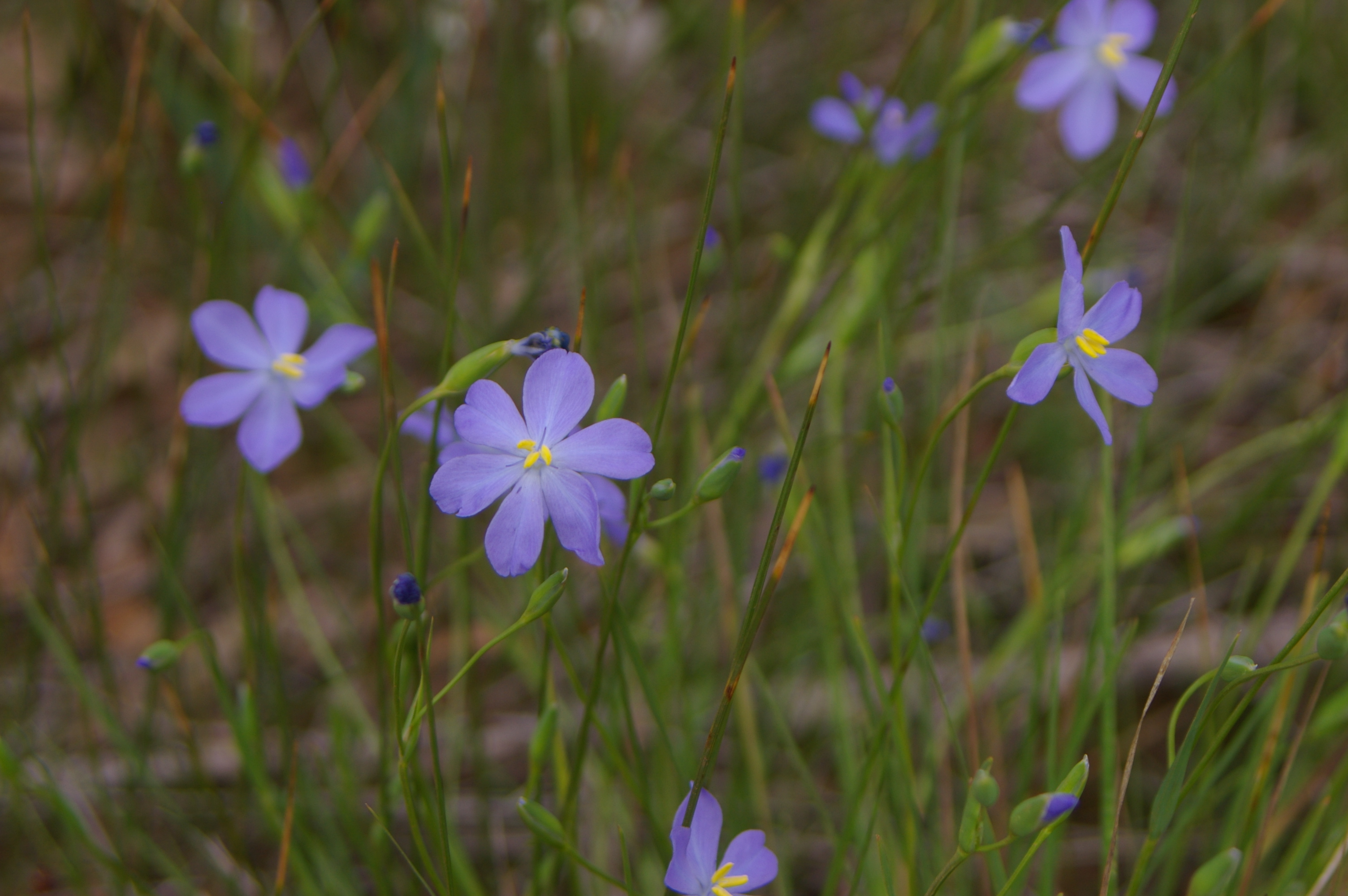 Photographed within the Drummond Nature Reserve, near Bolgart Western Australia Orthrosanthus laxus